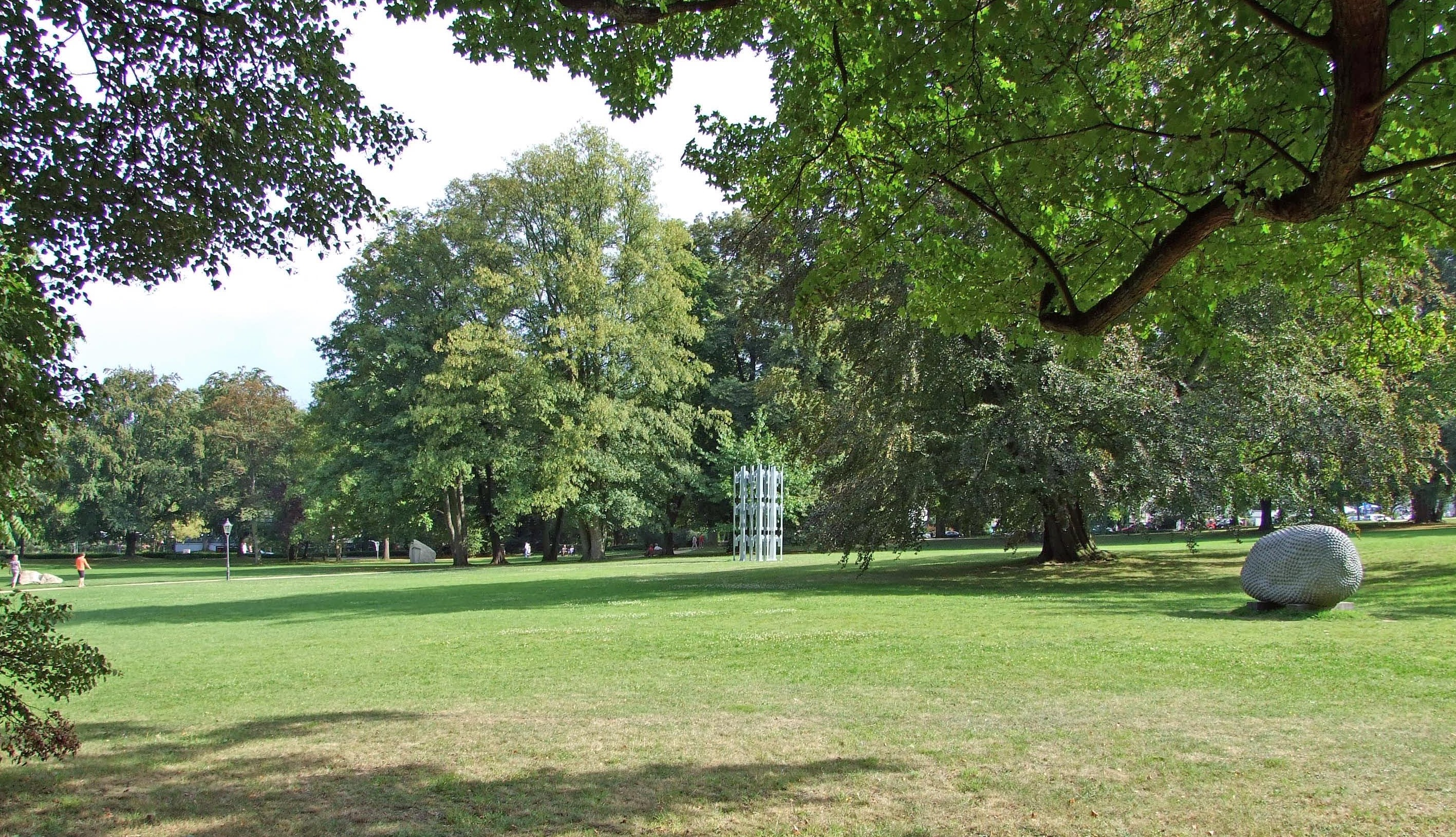 Four sculptures, from Paul Hoffmann ("Bruecke" and "Tor (Hemmingen)"), Jonathan Borofsky ("Human Structures) and Peter Randall-Page ("Warts and All"), at "blickachsen 7" (2009), Kurpark Bad Homburg, Hesse, Germany